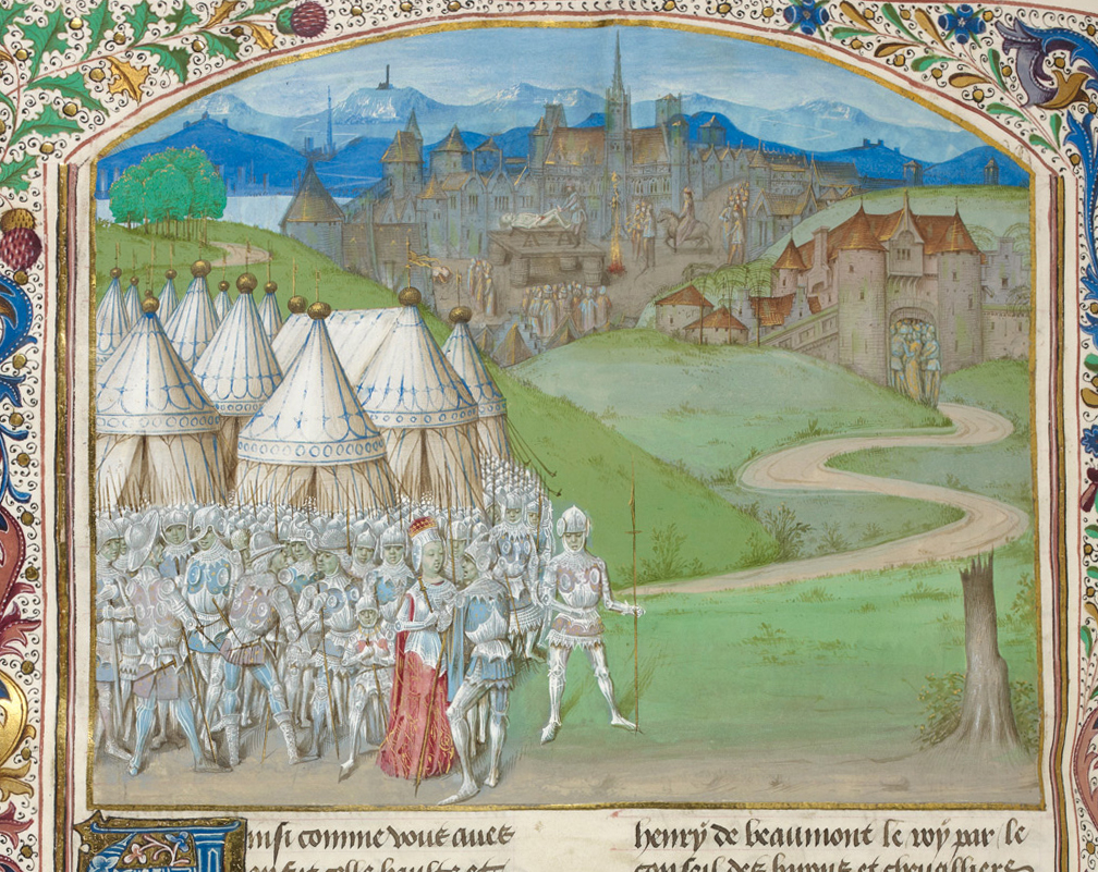 15th-century manuscript illustration of Isabella of France with Roger Mortimer. The original manuscript is now in the collections of the British Library.